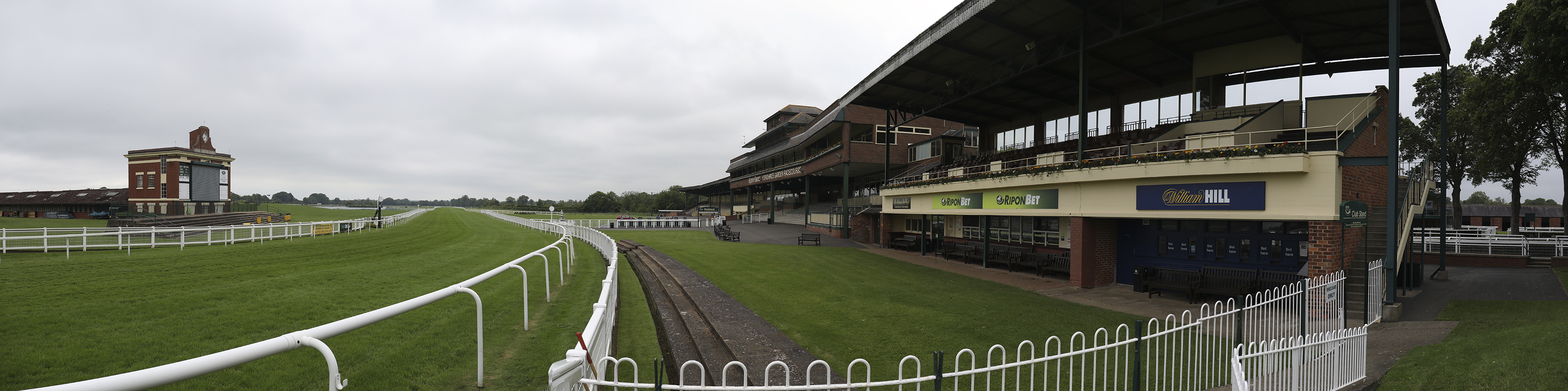 A panorama shot of Ripon racecourse